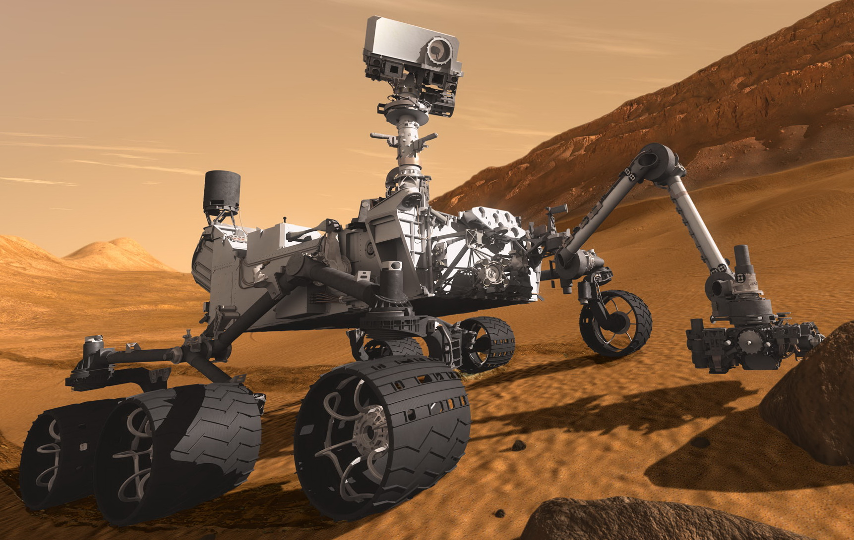 This artist concept features NASA's Mars Science Laboratory Curiosity rover, a mobile robot for investigating Mars' past or present ability to sustain microbial life. Curiosity is being tested in preparation for launch in the fall of 2011. In this picture, the rover examines a rock on Mars with a set of tools at the end of the rover’s arm, which extends about 2 meters (7 feet). Two instruments on the arm can study rocks up close. Also, a drill can collect sample material from inside of rocks and a scoop can pick up samples of soil. The arm can sieve the samples and deliver fine powder to instruments inside the rover for thorough analysis. The mast, or rover’s “head,” rises to about 2.1 meters (6.9 feet) above ground level, about as tall as a basketball player. This mast supports two remote-sensing instruments: the Mast Camera, or “eyes,” for stereo color viewing of surrounding terrain and material collected by the arm; and, the ChemCam instrument, which is a laser that vaporizes material from rocks up to about 9 meters (30 feet) away and determines what elements the rocks are made of.